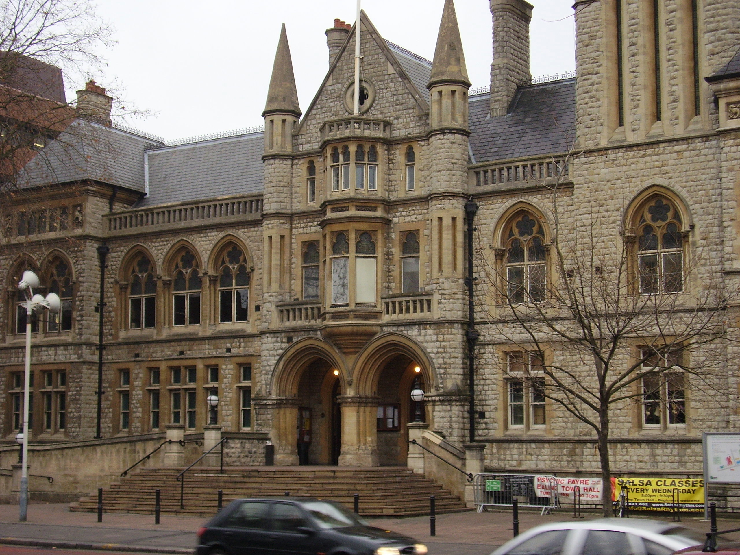 Ealing's famous town hall.